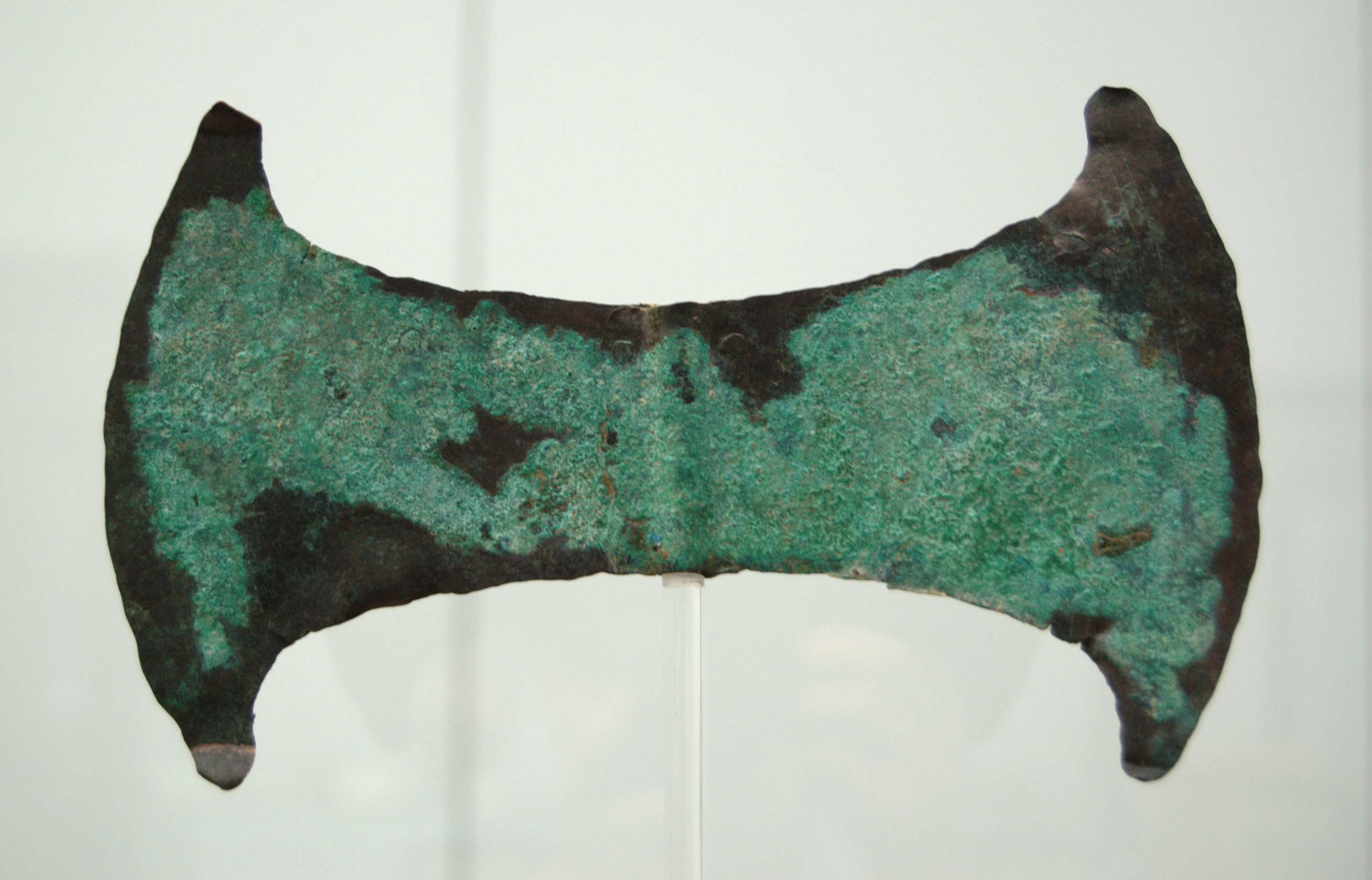 Labrys (double axe), Cretan cult symbol. Bonze, 15–13th century BC.